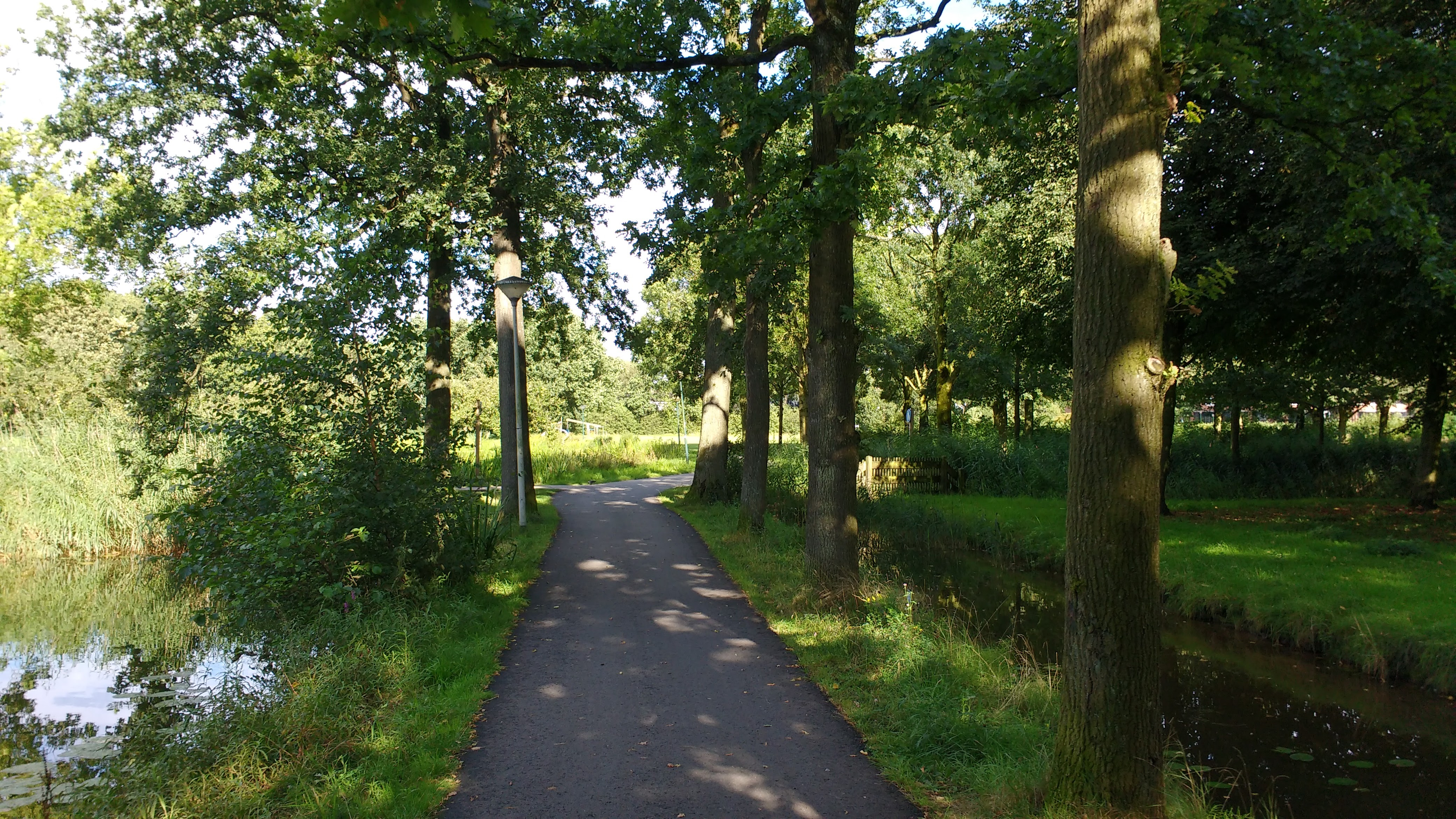 Streets in Woerden